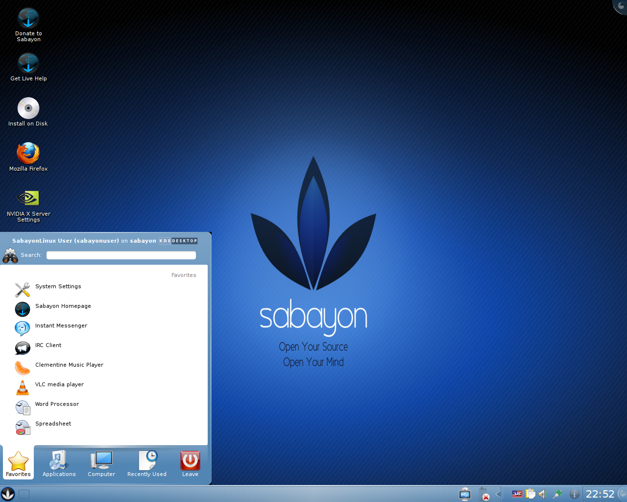 Sabayon 5.2 KDE screenshot